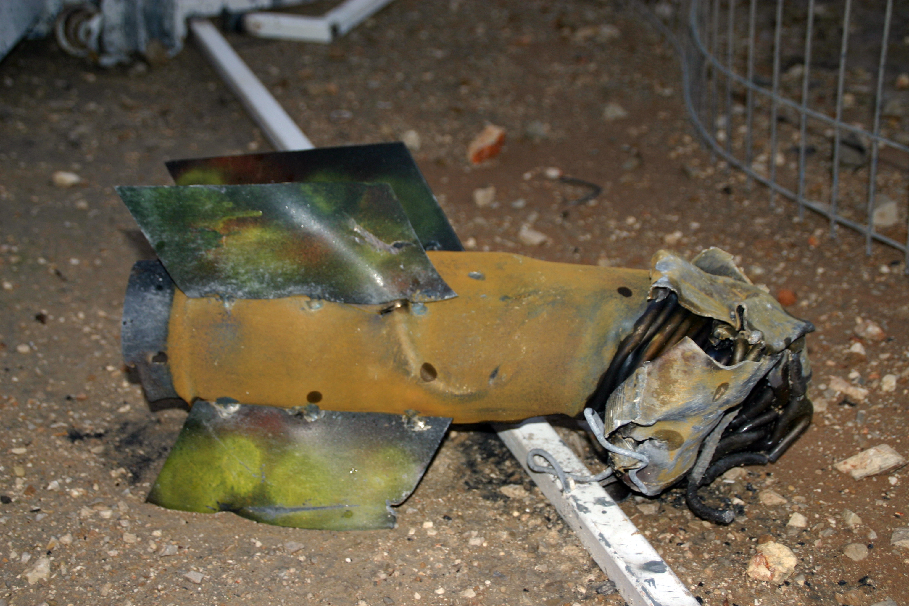 Qassam rocket fired from the Gaza Strip hits southern Ashkelon in Israel.